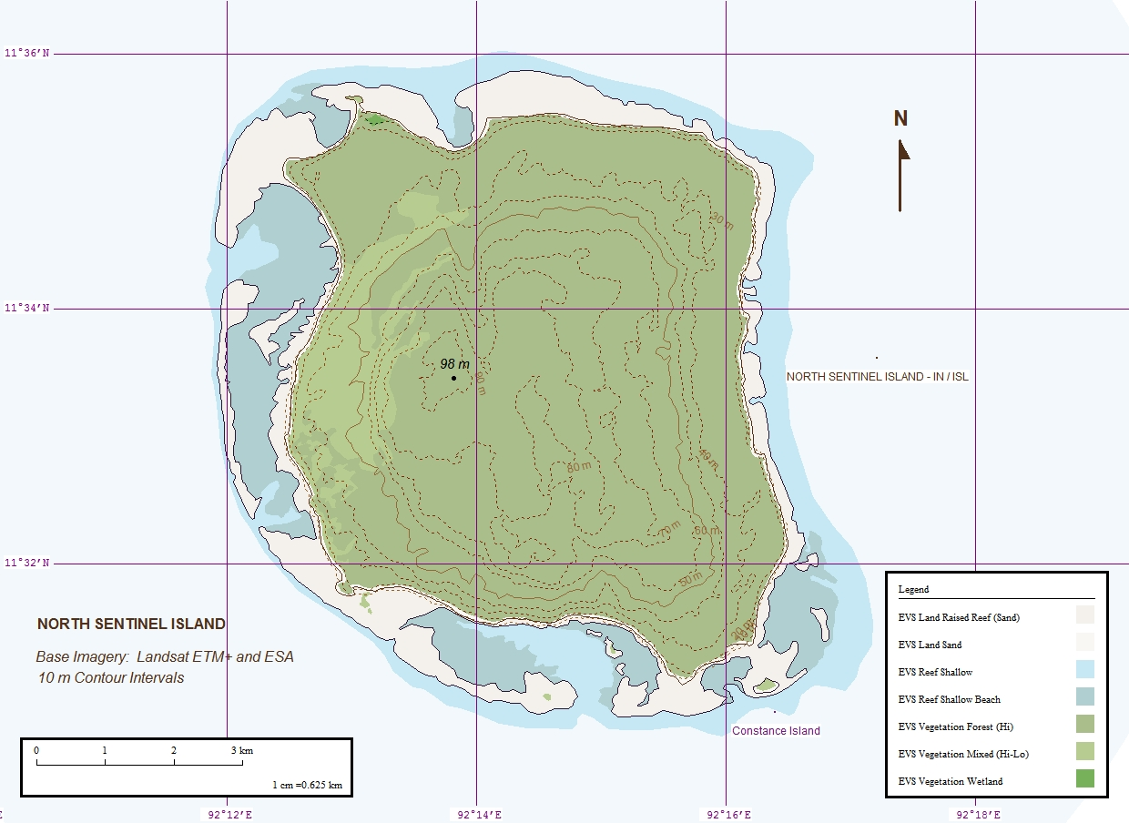 Map of North Sentinel Island, westernmost island of Andaman Islands, India